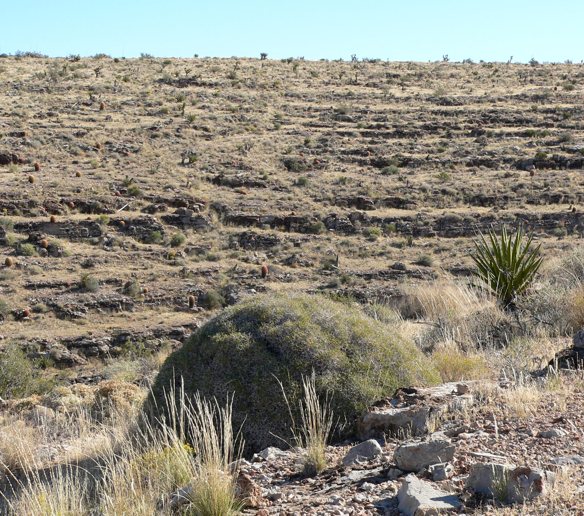 Large Eriogonum heermannii var. sulcatum on Blue Diamond Hill, Red Rock Canyon, southern Nevada